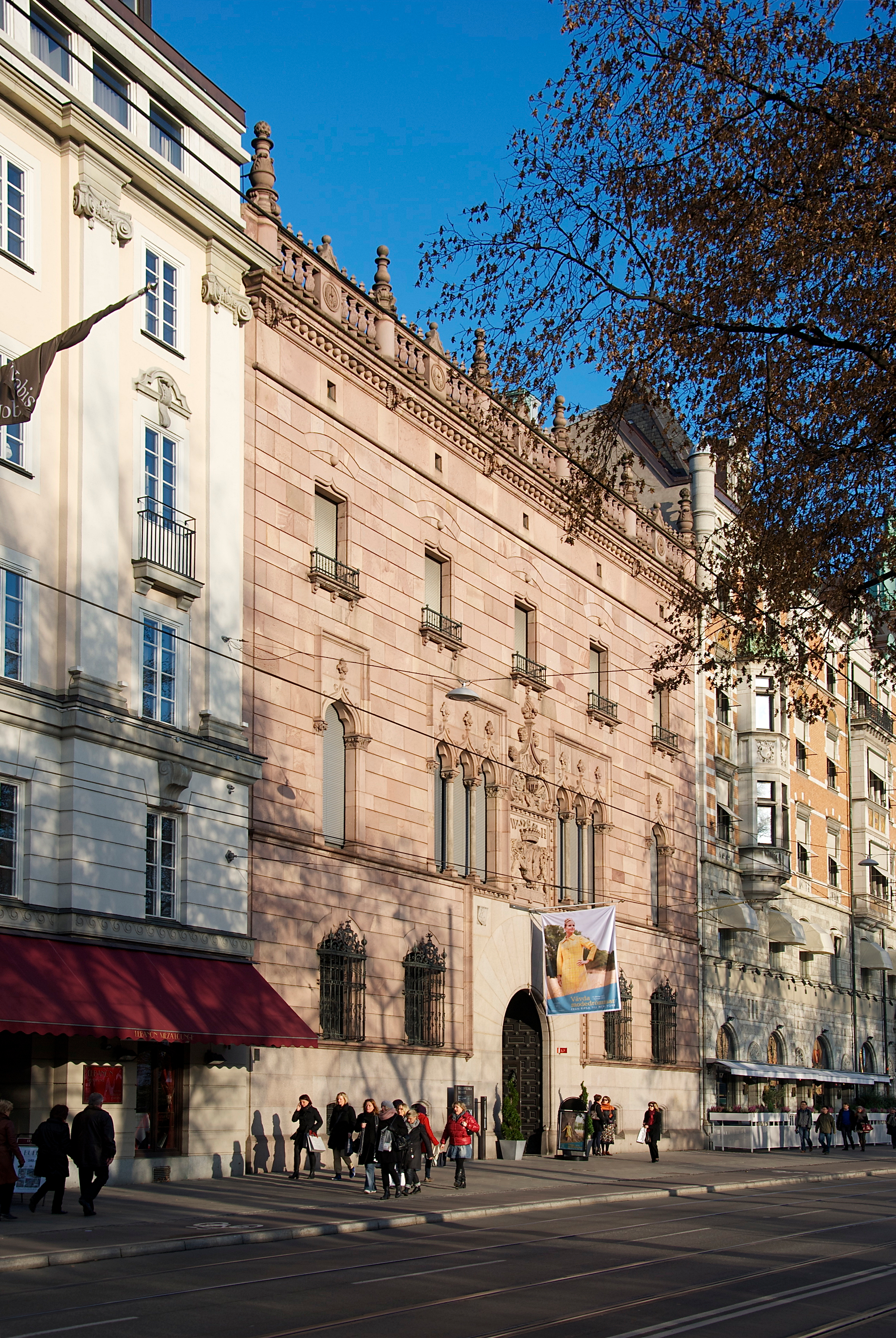 Hallwyl House, Stockholm